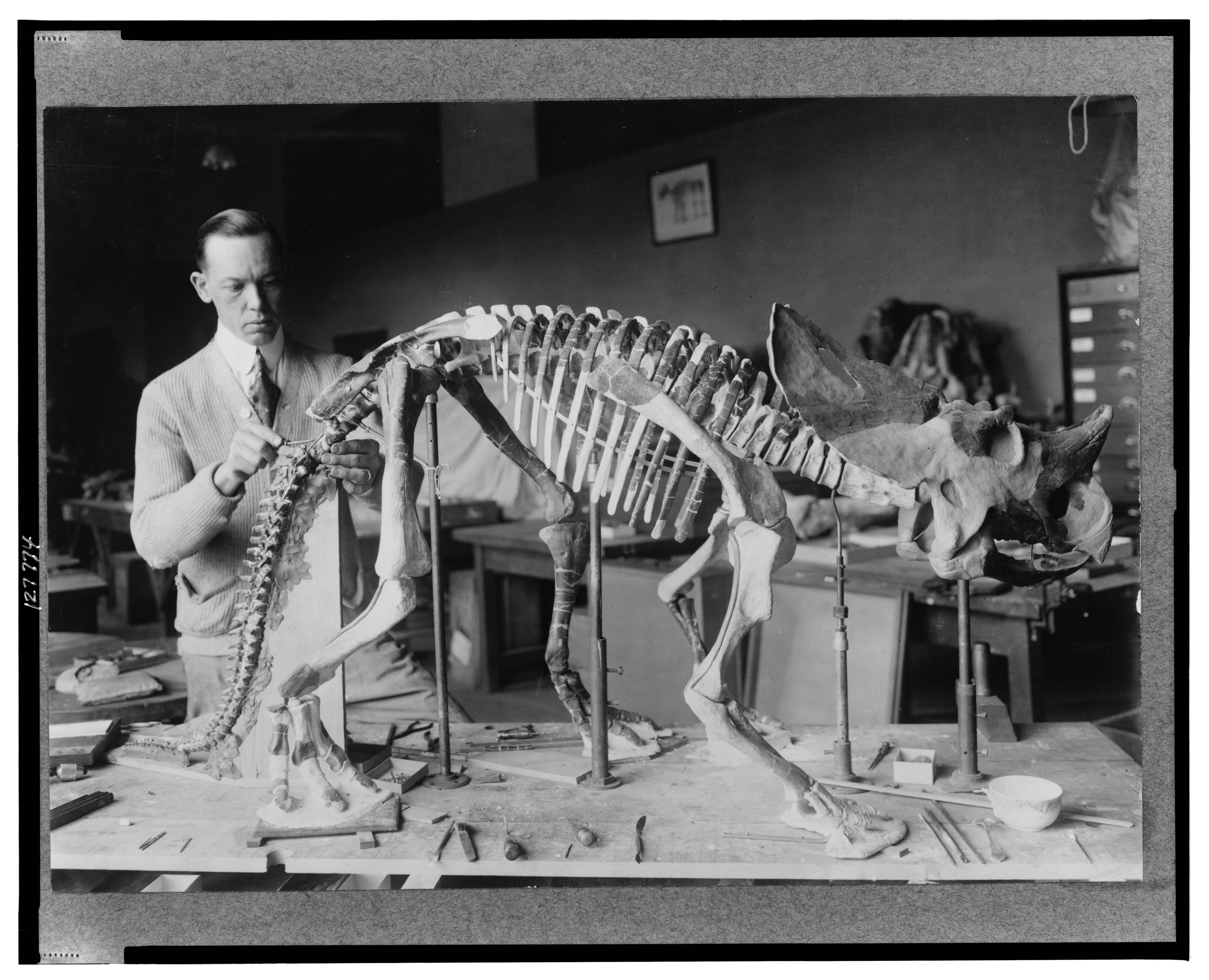 Title: Norman Ross of the division of Paleontology, National Museum, preparing the skeleton of a baby dinosaur some seven or eight million years old for exhibition Abstract/medium: 1 photographic print.